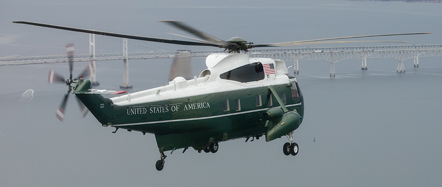 President Donald Trump travels aboard Marine One en route to Dover Air Force Base. President Trump made an unannounced trip on Wednesday, February 1, 2017, to honor the returning remains of a U.S. Navy SEAL, Chief Special Warfare Operator William "Ryan" Owens, who was killed during a raid in Yemen on January 29, 2017. (Official White House Photo by Shealah Craighead)